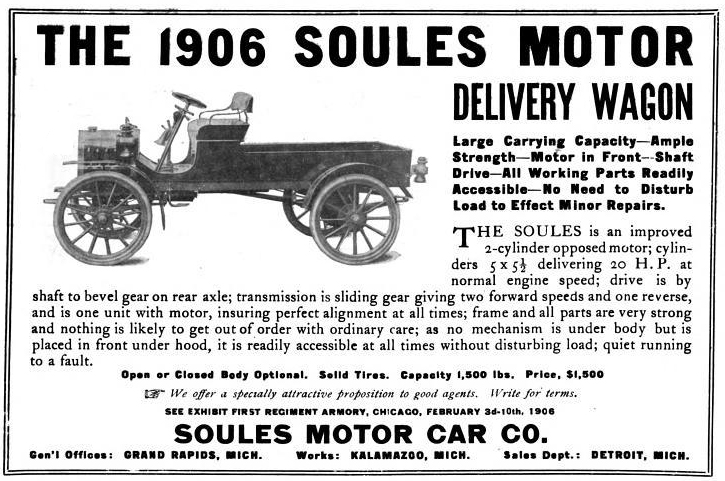 Soules Motor Car Company of Grand Rapids, Michigan - 1905